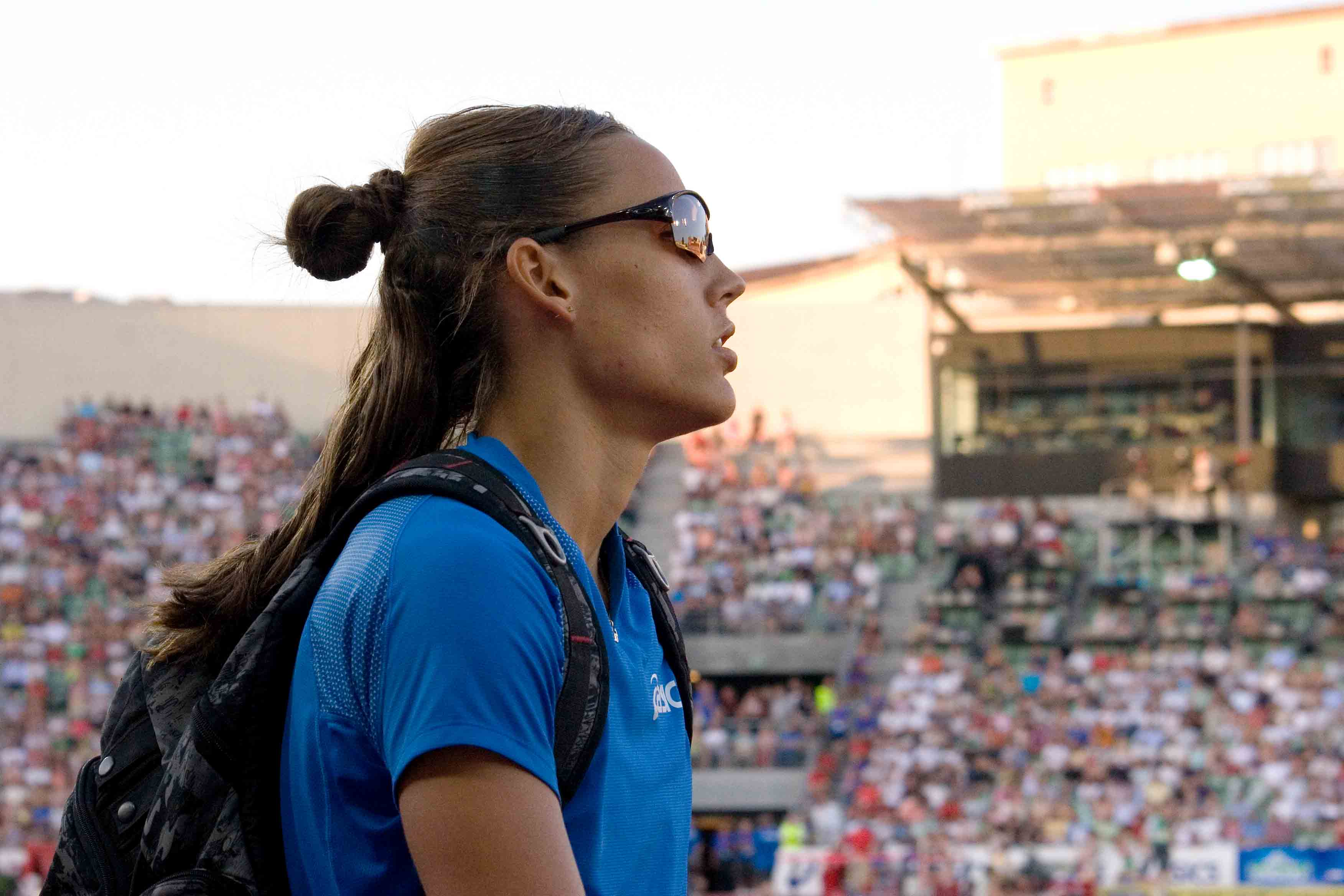 100m hurdles women: Lolo Jones of the USA